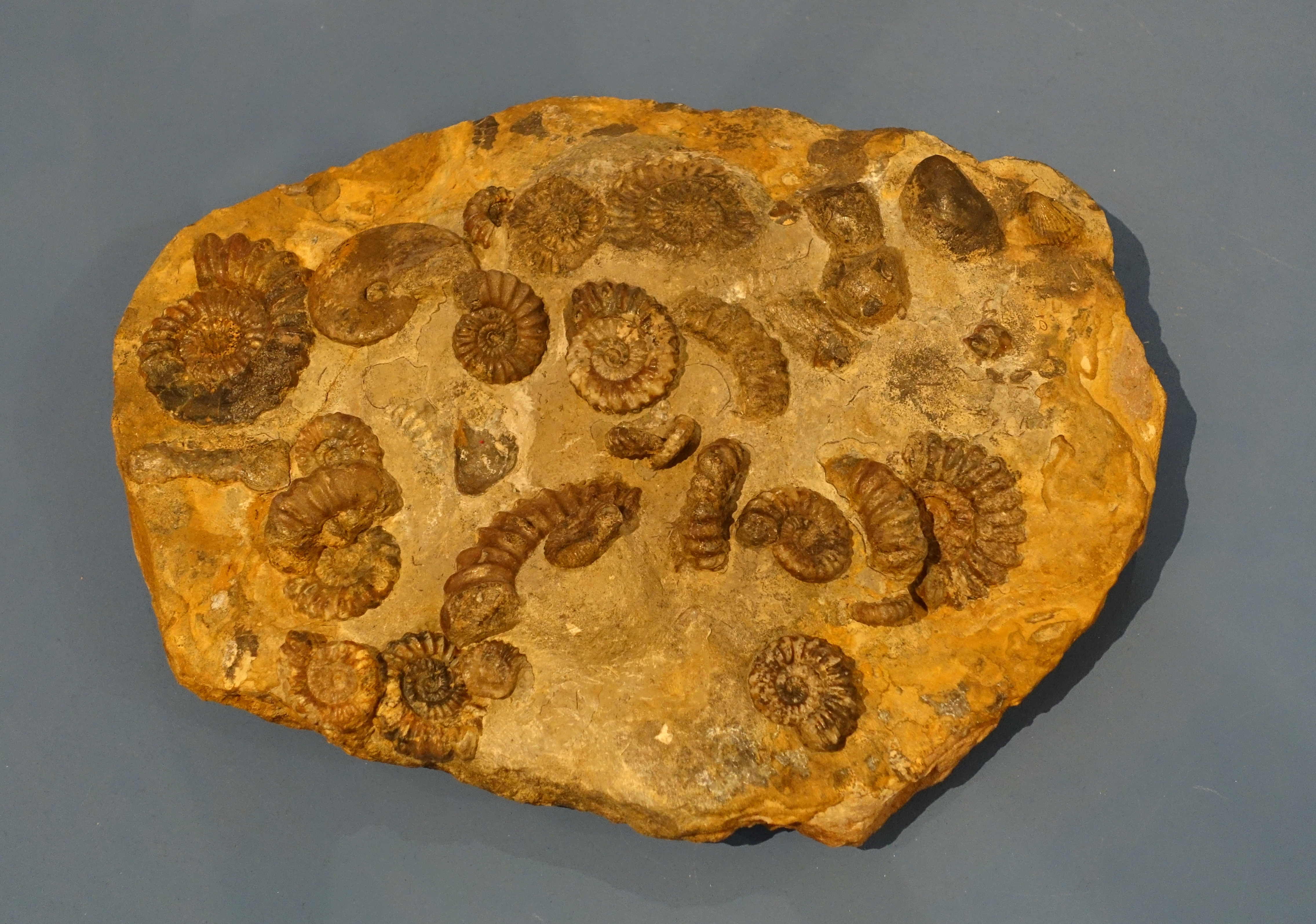 Exhibit in the Naturhistorisches Museum, Braunschweig, Germany.